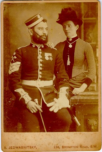 Pioneer Lance Sergeant Harry Tesh of the Coldstream Guards and his wife was taken by S. Jedwabnitsky, of 138, Brompton Road, London SW